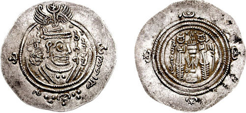 EARLY ISLAMIC, Arab-Sasanian. al-Hajjaj bin Yusuf. 694-713 AD. AR Drachm (4.05 gm, 3h). DA(P) mint. Dated YE 71 (AH 83; 702/3 AD). Sasanian-style bust right with winged crown, Pahlevi inscription surrounding; four stars and crescents around bust, in the margin four equally spaced stars and crescents (the lower flanked by \ \); bismillah in lower right, MY(?) in Pahlevi in lower left / Fire altar flanked by attendants; date to left, mint to right, both in Pahlevi, MY(?) in Pahlevi by base, in the margin four equally spaced stars and crescents (the upper with a pellet). Walker, Arab-Sassanian -; SICA 1, p. 29; Album 36. Good VF. Rare with the governor's name in Pahlevi.